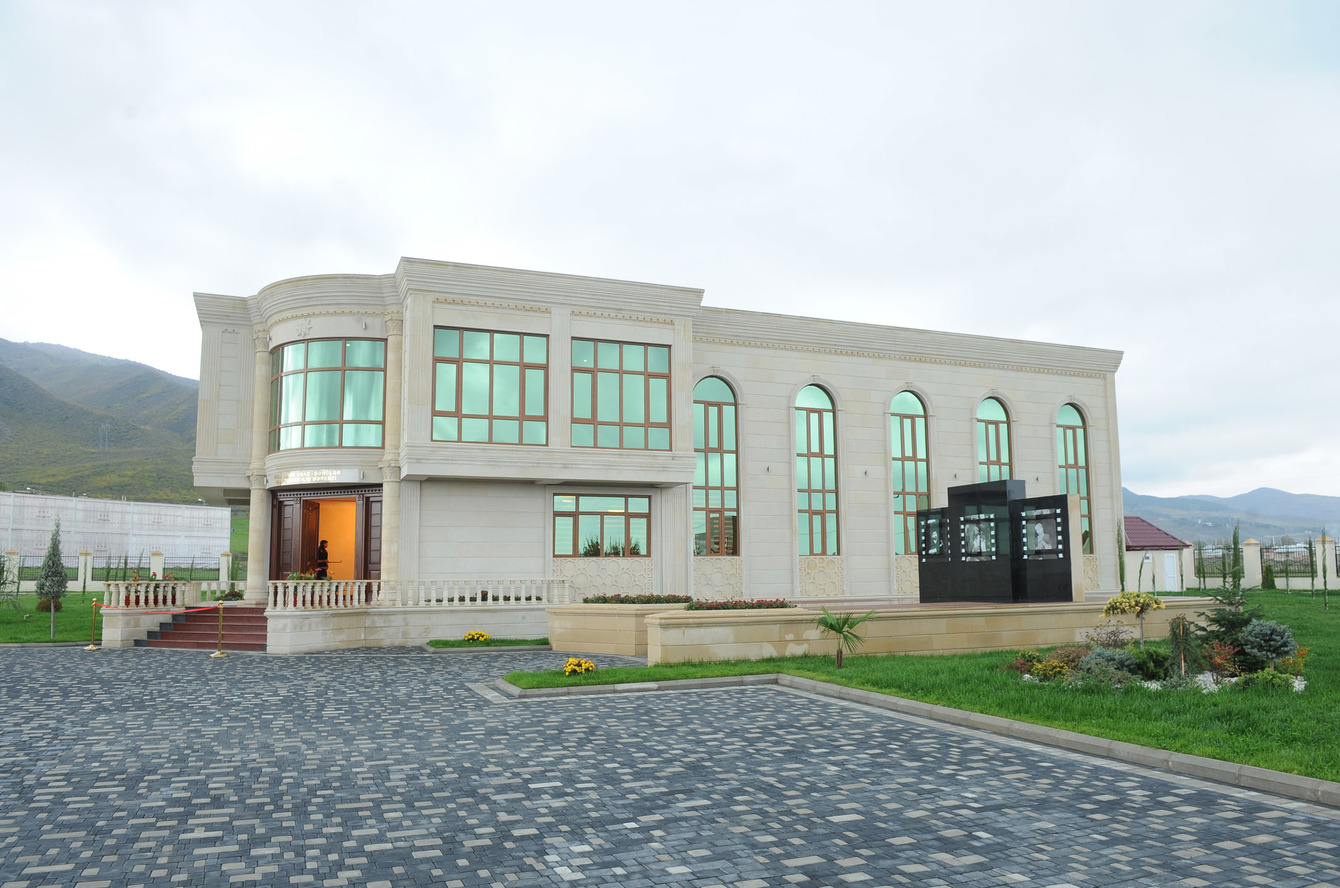 Ilham Aliyev attended the opening of a Children and Youth Art Center in Agsu